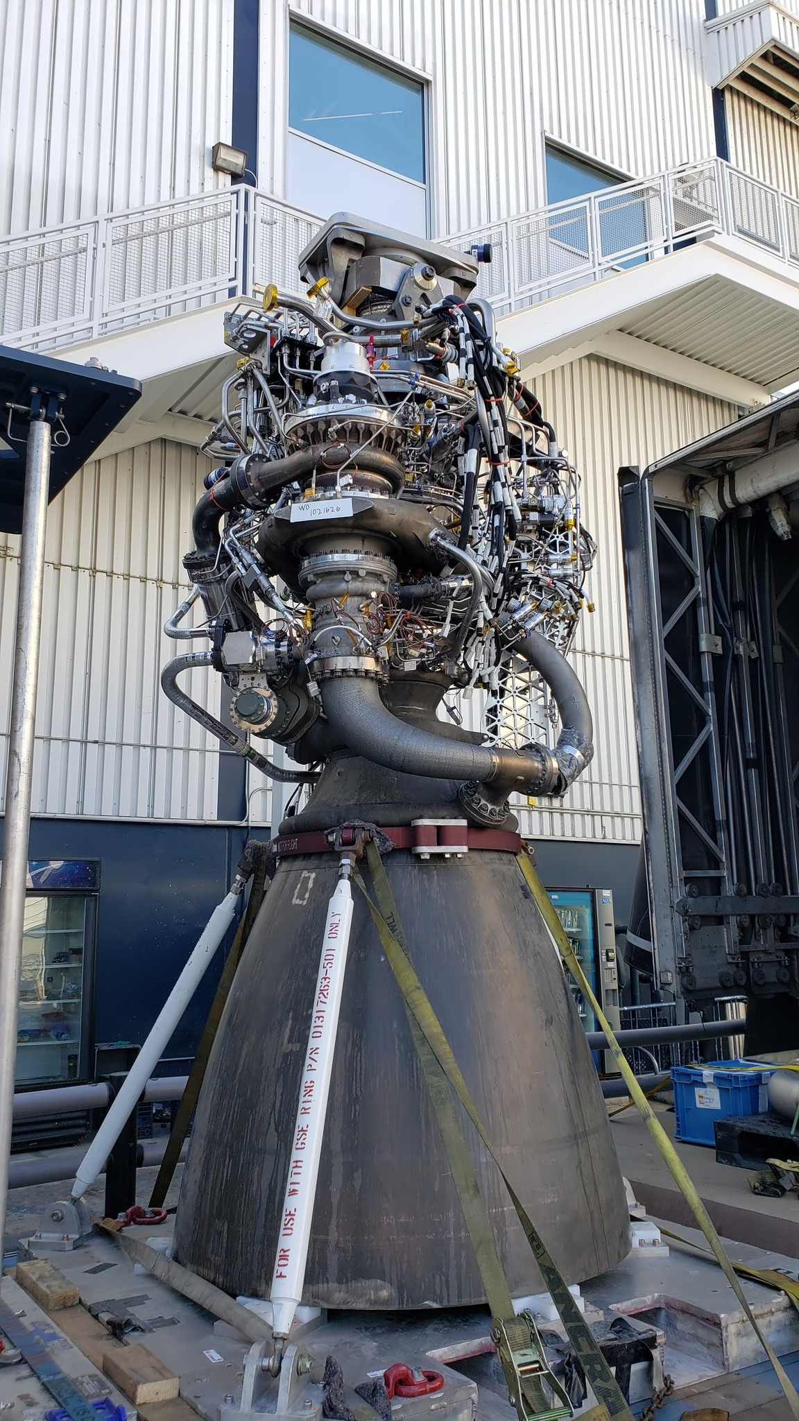 SpaceX sea-level Raptor at Hawthorne (another angle)